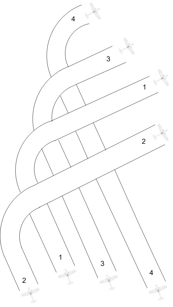 finger four cross over turn